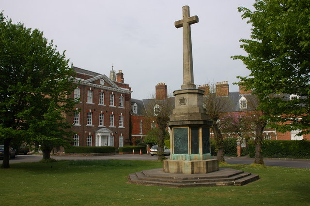 War Memorial, Gloucester This large War Memorial stands in front of the cathedral on Cathedral Green.